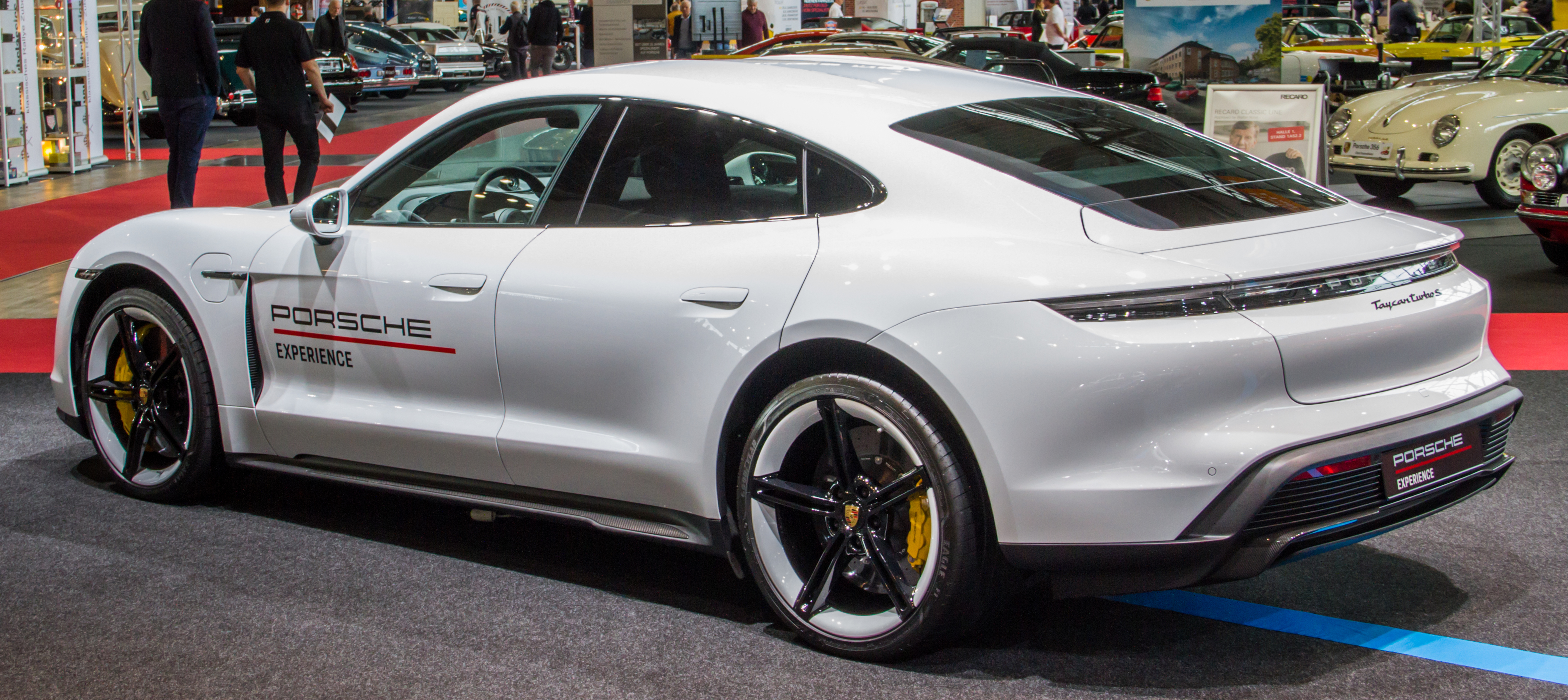 Porsche_Taycan at Retro Classics 2020